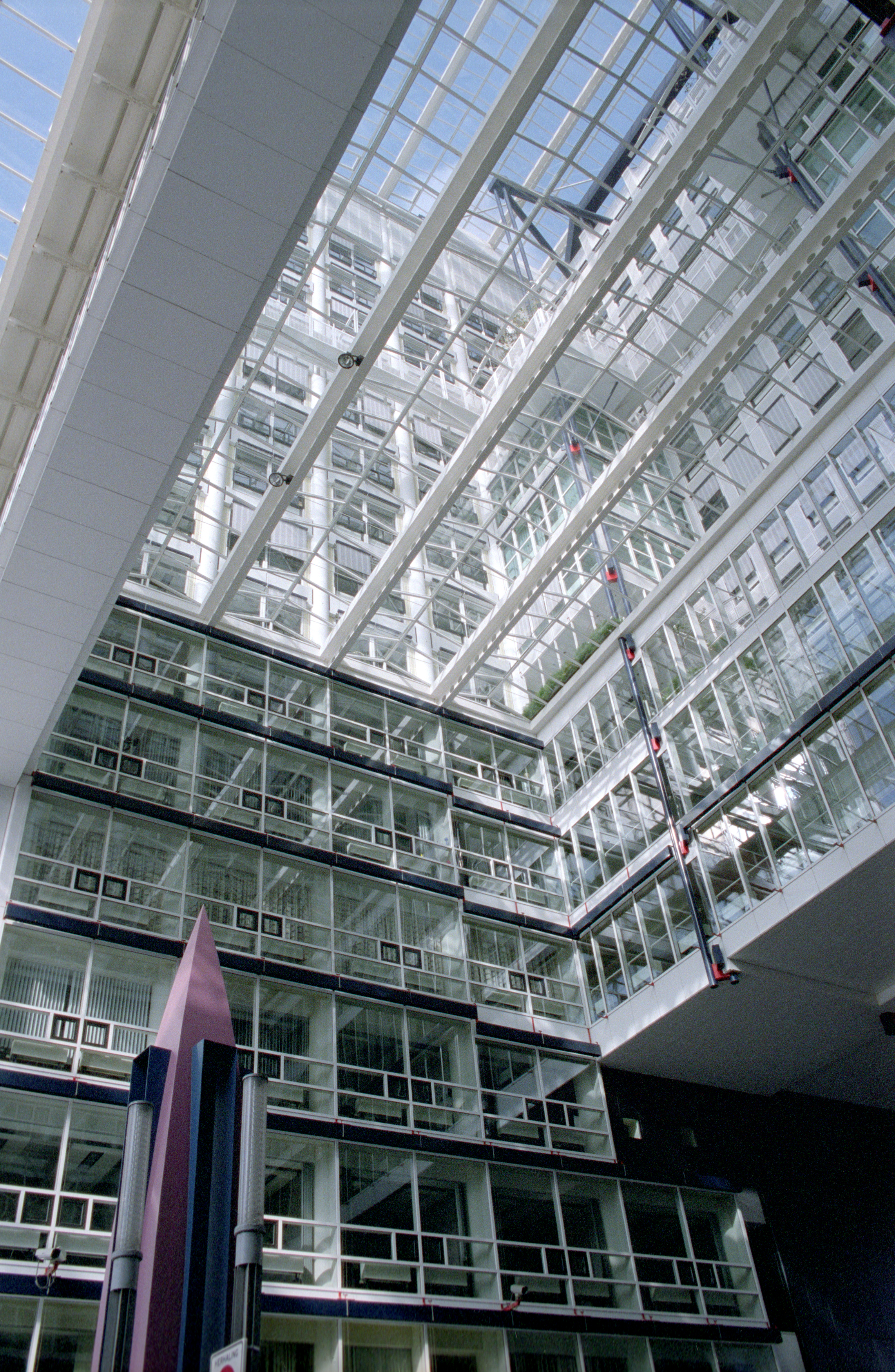 Ministrie VROM (environement and housing), The Hague, Netherlands